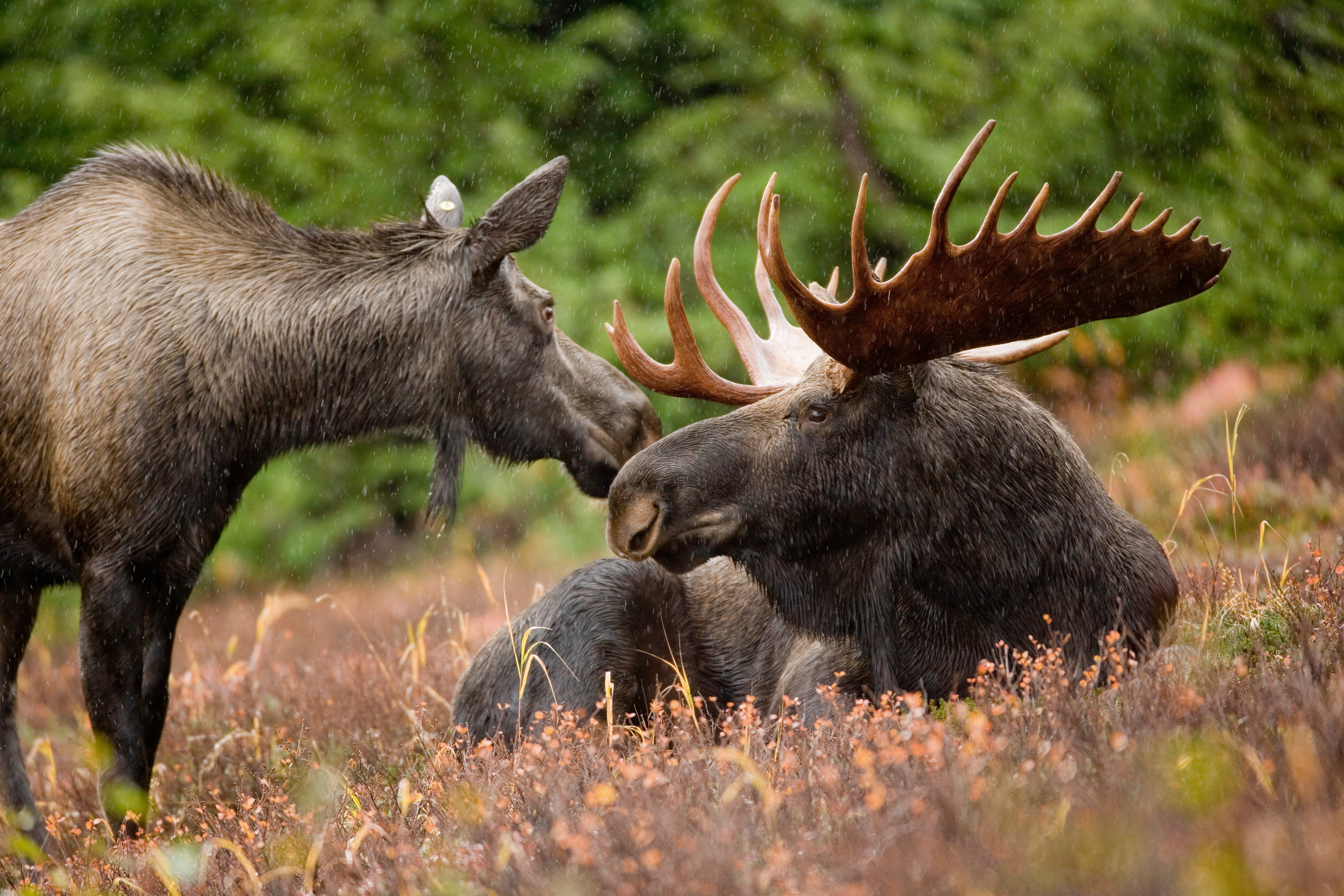 Alaskan moose, September 2007